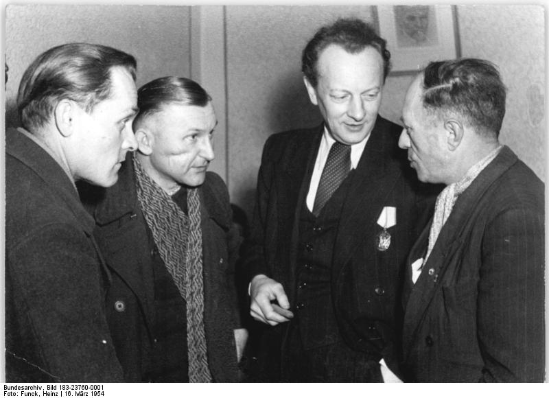 Spring 1954 Country Film Festival, Seelow (East Germany) Heinz Funck (Zentralbild), March 16, 1954. The Spring 1954 Country Film Festival, Seelow, in the administrative district of Oderbruch (near Frankfurt (Oder). The festival began with a screening of the DEFA color film, Ernst Thälmann – ein Sohn seiner Klasse [the first part of the English release Ernst Thälmann] at the MTS Sachsendorf Culture House. At this screening, a group of the actors were introduced to cooperative and individual farmers, farm laborers and factory workers. Pictured: Werner Müller, VEAB Rathstock, Herbert Kummerehl, head of VEAB Rathstock; Hans Klering, actor ([played the character of] Aussmussen) in the film, Ernst Thälmann – ein Sohn seiner Klasse and Karl Knaus, cooperative farmer from the LPG "Walter Ulbricht" in Kietz, in conversation after the screening at the MTS Sachsendorf Culture House, Seelow district.